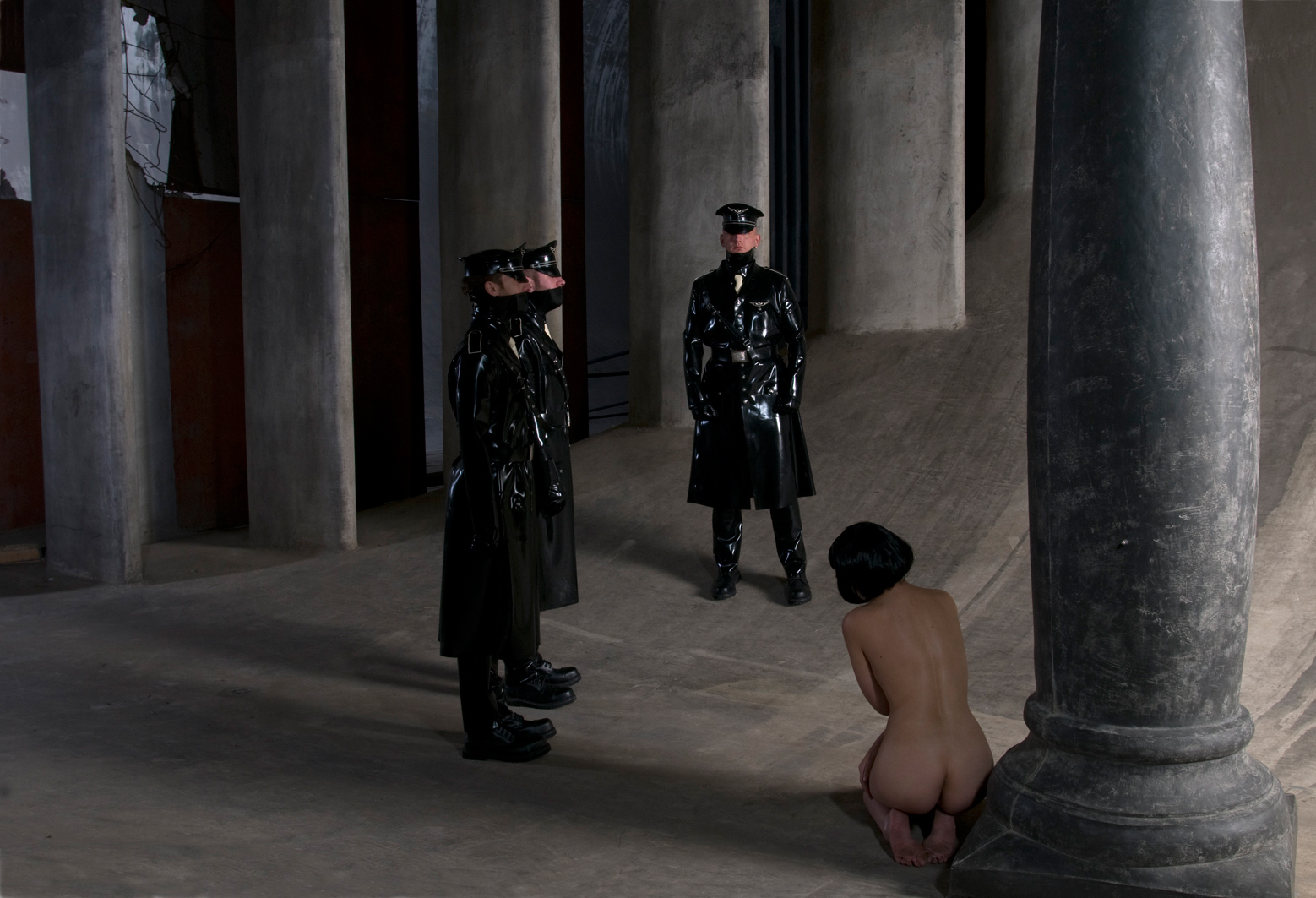 Andreas Fux, from the series Kerberos and Chimaira